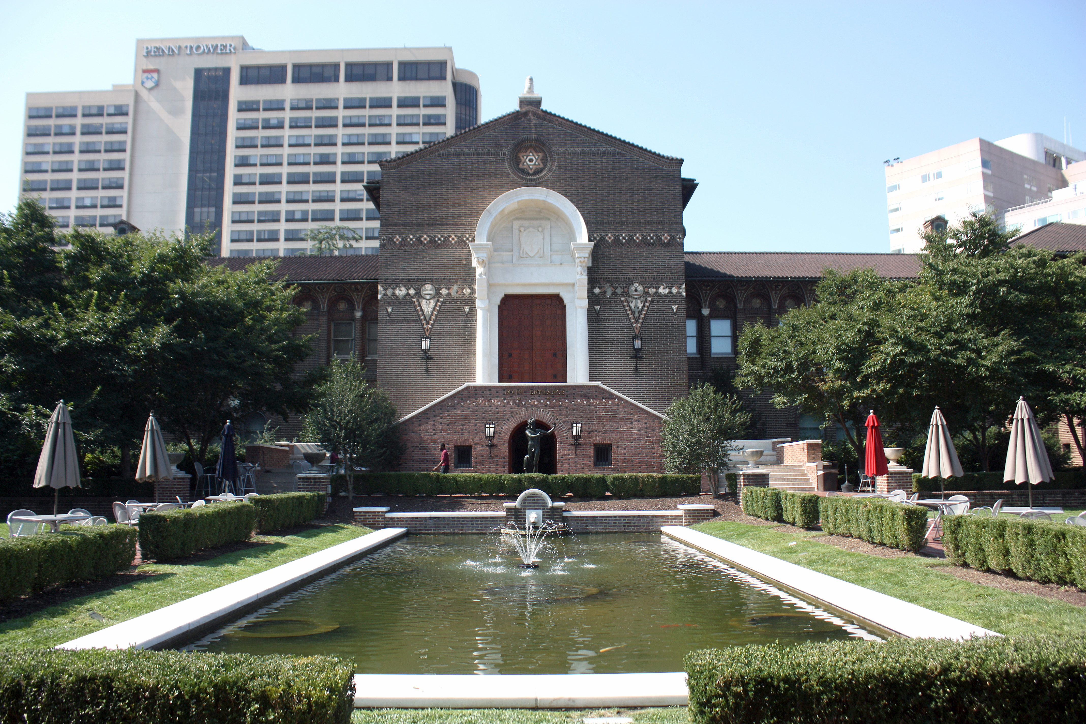 This photo shows the Warden Garden and Main Entrance to the Penn Museum, at the University of Pennsylvania in Philadelphia.